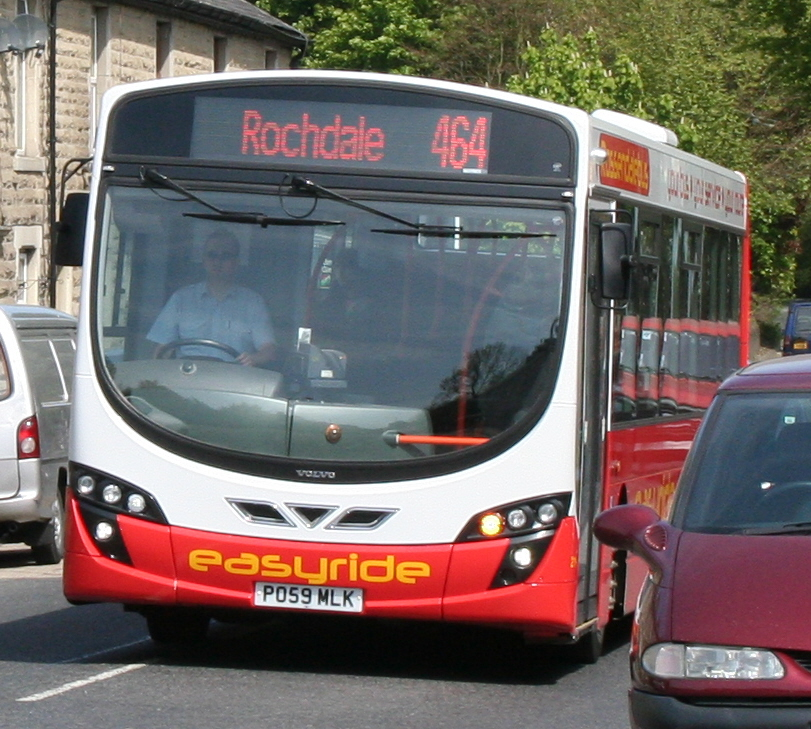 Rossendale Transport bus 211 (reg. PO59 MLK), a 2010 Volvo B7RLE single-decker with Wrightbus Eclipse 2 bodywork, pictured in Blackburn Road near Haslingden, Lancashire on route 464 to Rochdale.